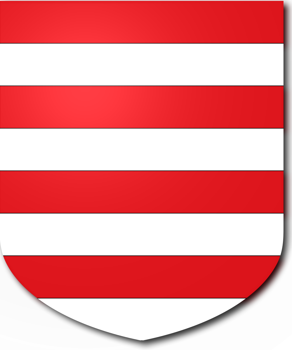 Venier shield